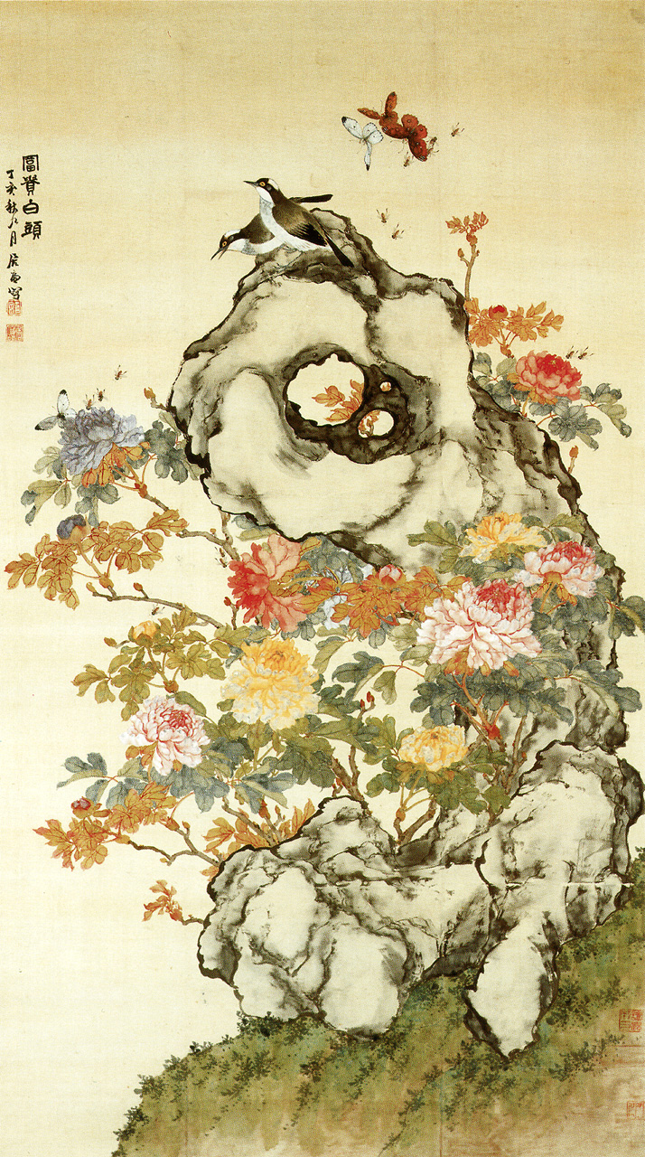 Painting by Ju Lian